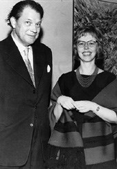 Photograph of the Swedish writer Harry Martinson (1904–1978) with his Finnish translator, poet Aila Meriluoto (1924–2019).